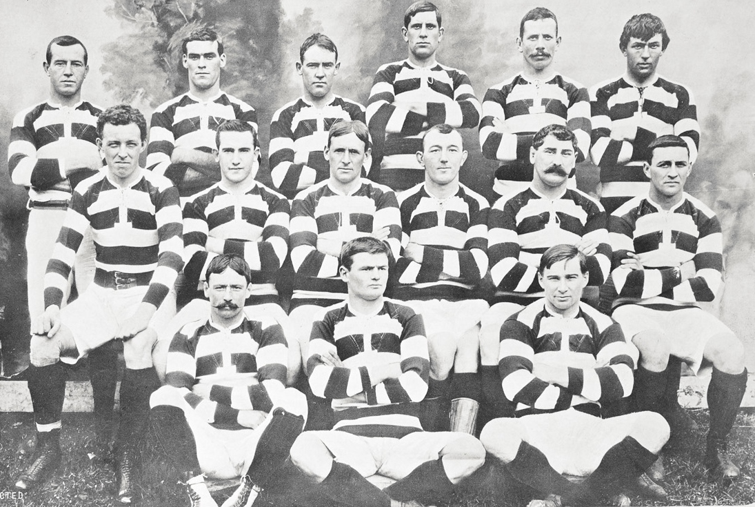 The Auckland provincial rugby union team that defeated the touring British Isles side 13-0 in 1904. Caption reads: The Auckland rugby [union] representatives who defeated the British [and Irish Lions] team at Alexandra Park, Auckland, August 20, 1904. Back row -- Dave Gallaher, Charlie Seeling, A Renwick, George Nicholson, W Joyce, Hayward Middle row -- W E McKenzie, William Mackrell, M Wood, George Tyler, William (Billy) Cunningham, W Harrison Front row -- Henry Kiernan, W Murray, R McGregor